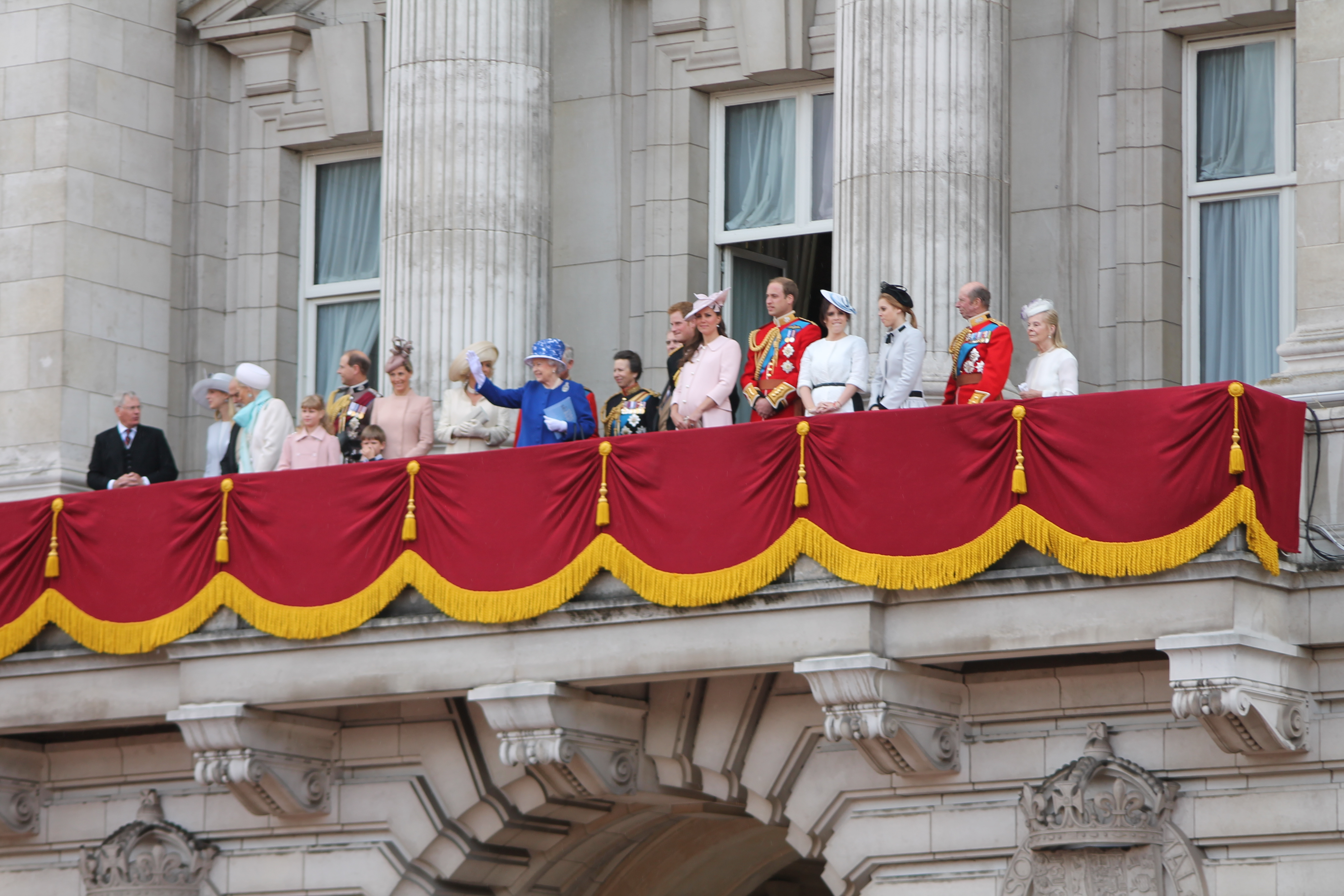 The British royal family on the balcony of Buckingham Palace, June 2013